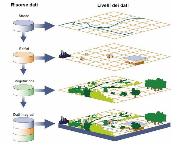 Italian version of File:Visual Representation of Themes in a GIS.jpg